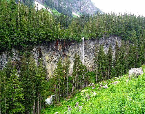 This cliff is the lava front in Charnaud Creek where the last eruption from the Silverthrone Complex ran up against ice in Charnaud Creek. Now there is this nice cliff with a waterfall up against it. It also marks the limit of where they can log to.